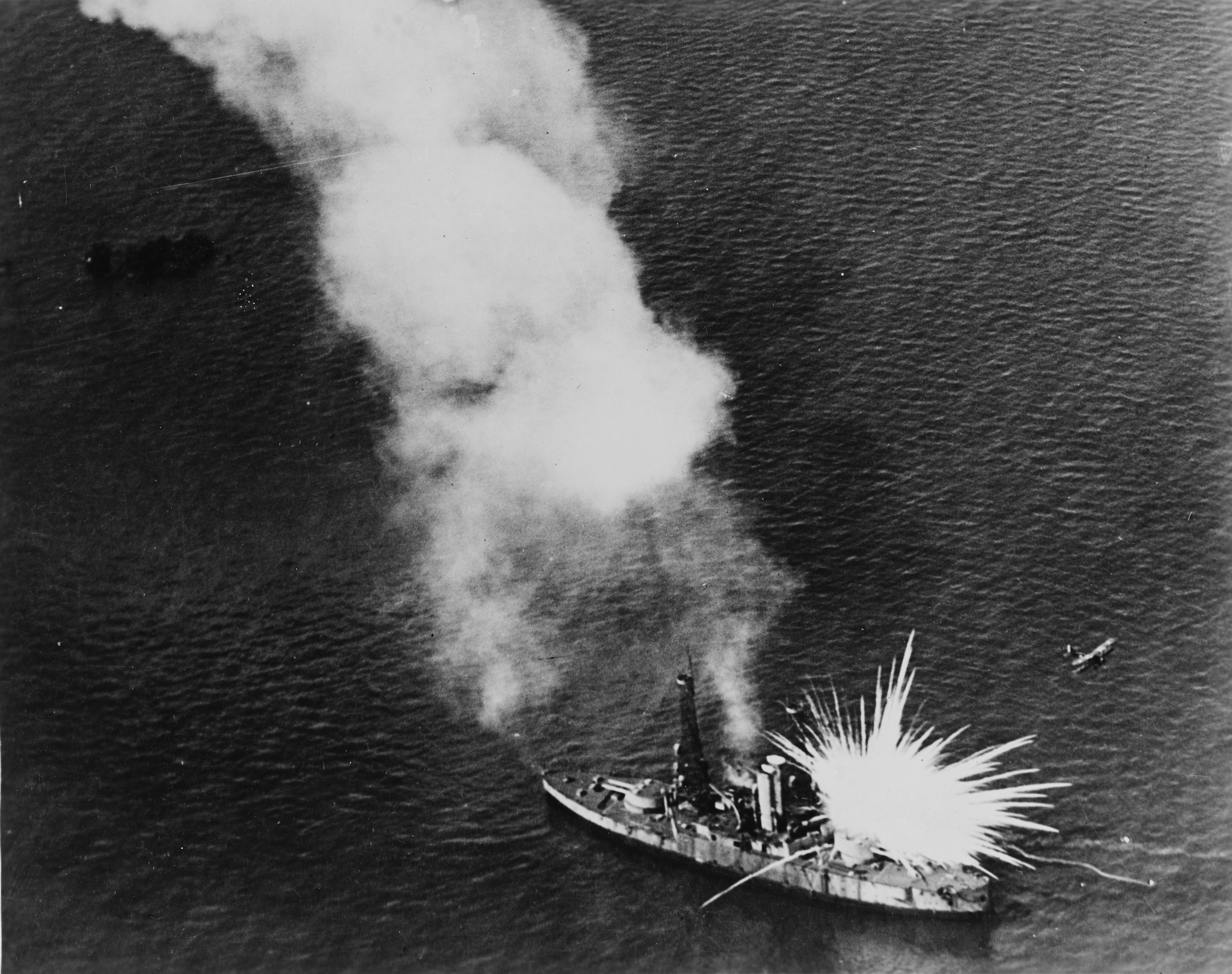 Is hit by a phosphorus bomb, while serving as a target for U.S. Army bombers in Chesapeake Bay, September 1921. An Army DH-4 type single-engine bomber is flying nearby. U.S. Naval History and Heritage Command Photograph.